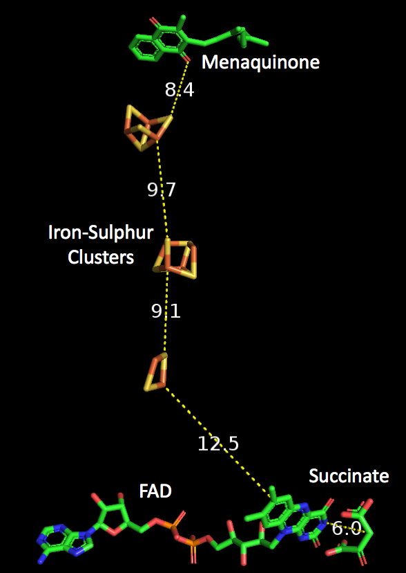 1l0v labeled electron transport chain